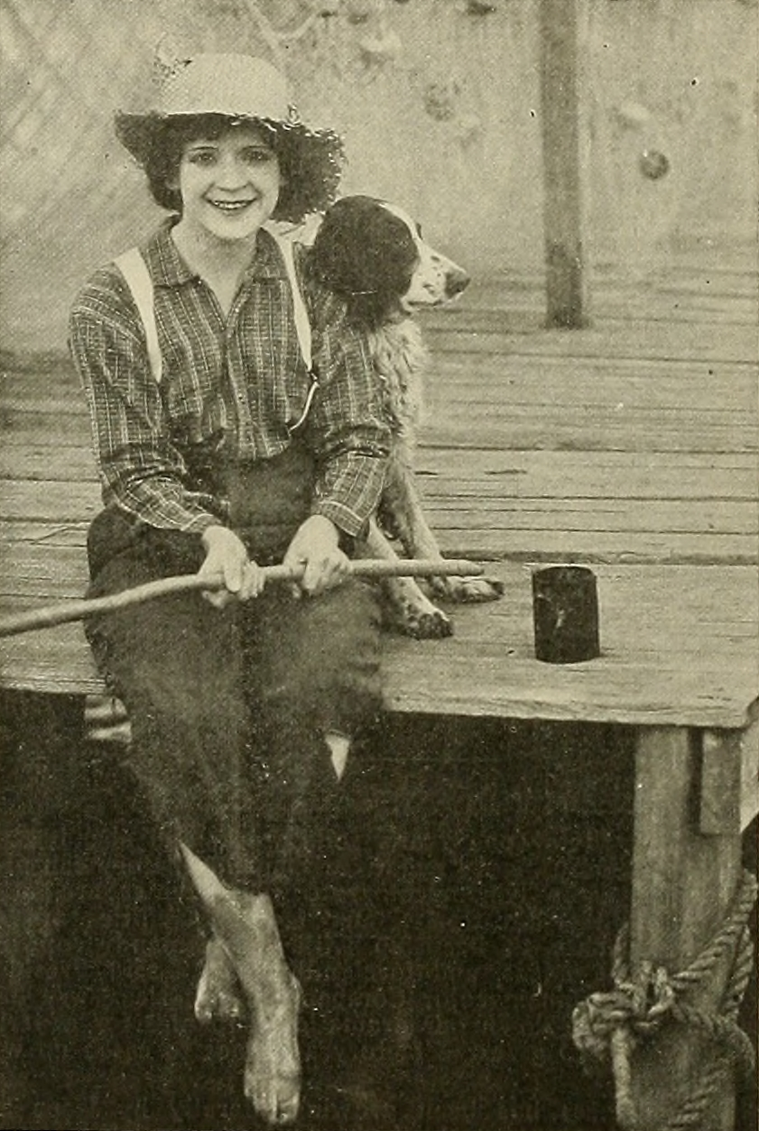 Gene Gauntier, film still from 'On the Firing Line', taken spring 1913